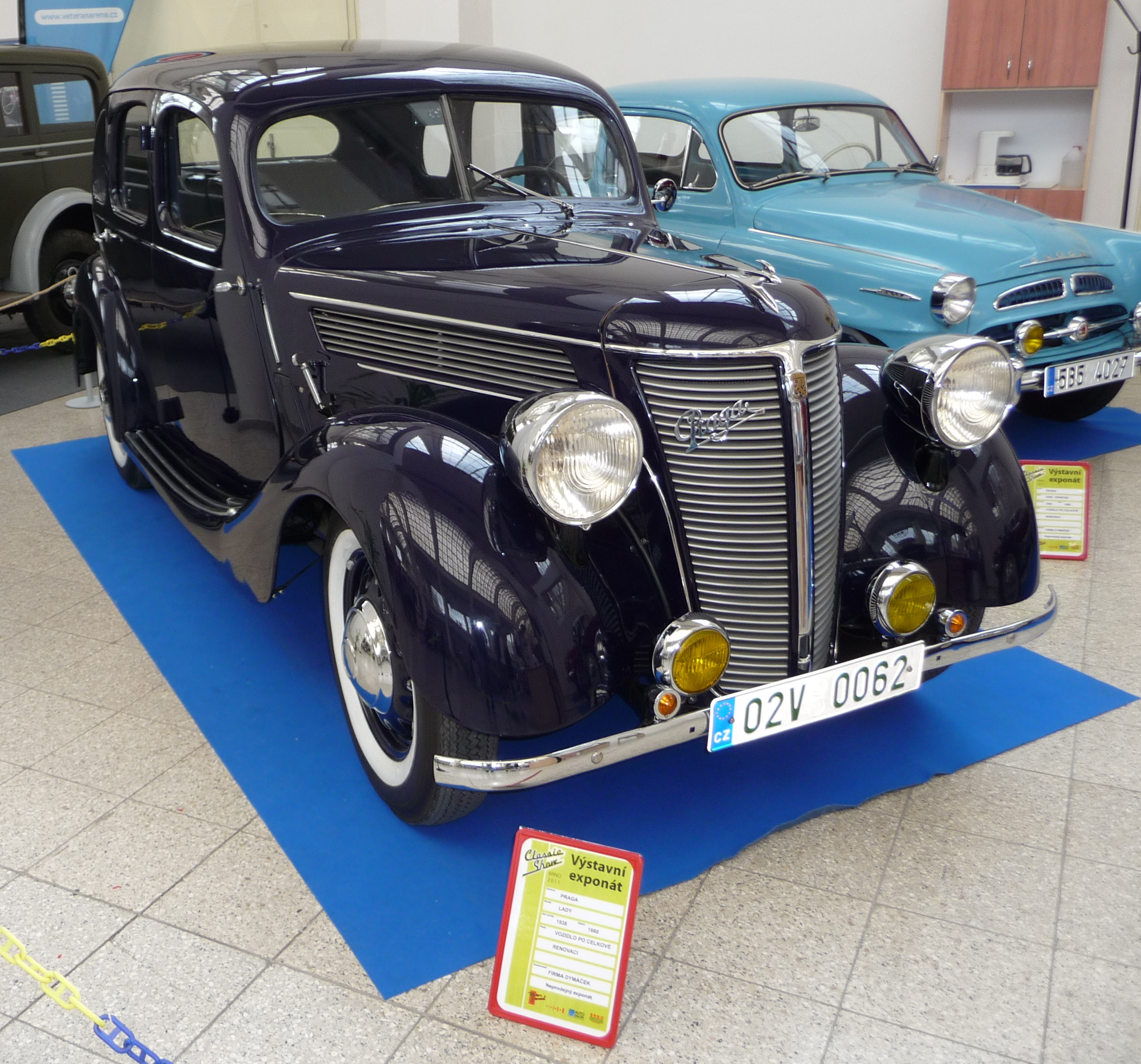 Praga Lady, year 1938, Classic Show Brno 2011, The Brno Exhibition Grounds -10 -5 -3 -2 ◄ ► +2 +3 +5 +10